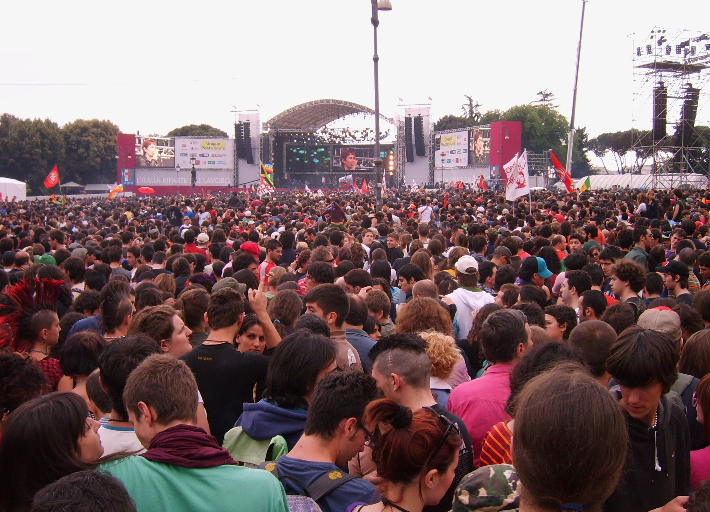 Each year, on the 1st May there is a huge free concert in "San Giovanni" square in Rome, Italy. In 2007 there were approximately 700000 people [1]. This is a view of the crowd watching the concert. Other pictures on Commons about the same event